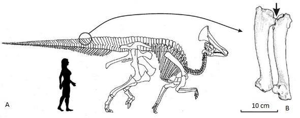 Olorotitan arharensis Godefroit, Bolotsky & Alifanov, 2003 (holotype AEHM 2-845). A ; skeletal reconstruction, B ; detail of interconnected neural spines. Upper Cretaceous of Kundur, Russia